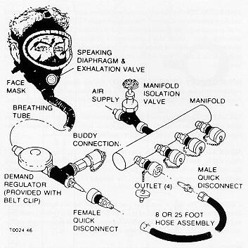 US submarine emergency air breathing mask and secure air connections